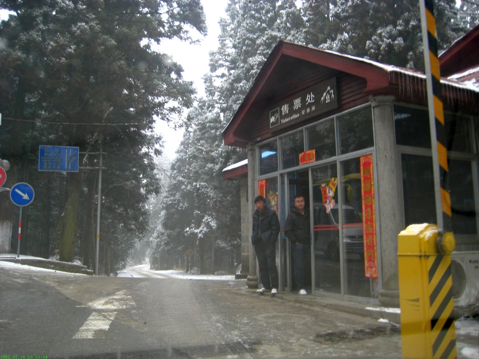 Lu Shan south entrance